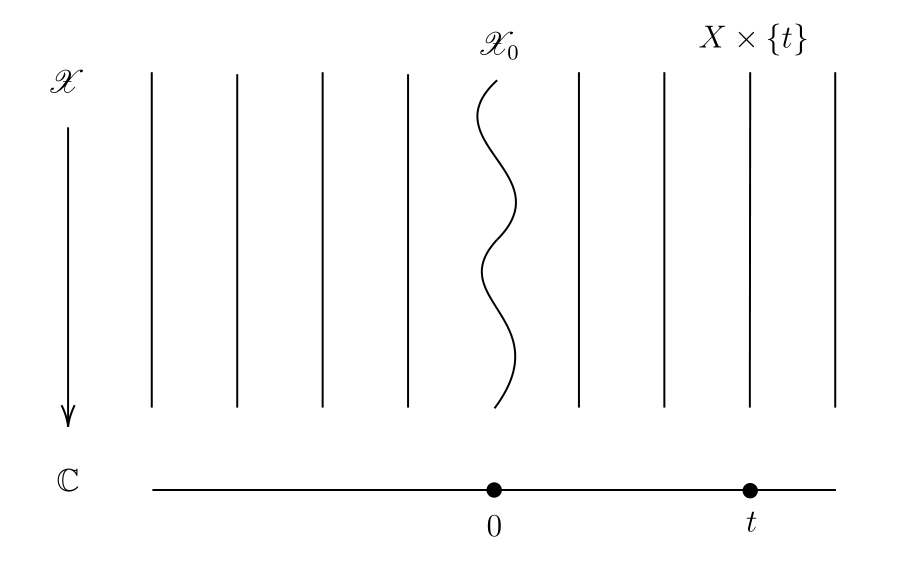 A diagram created in tikz of a test configuration.